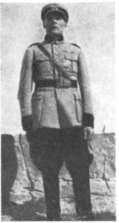 Captain Arvo Kartano